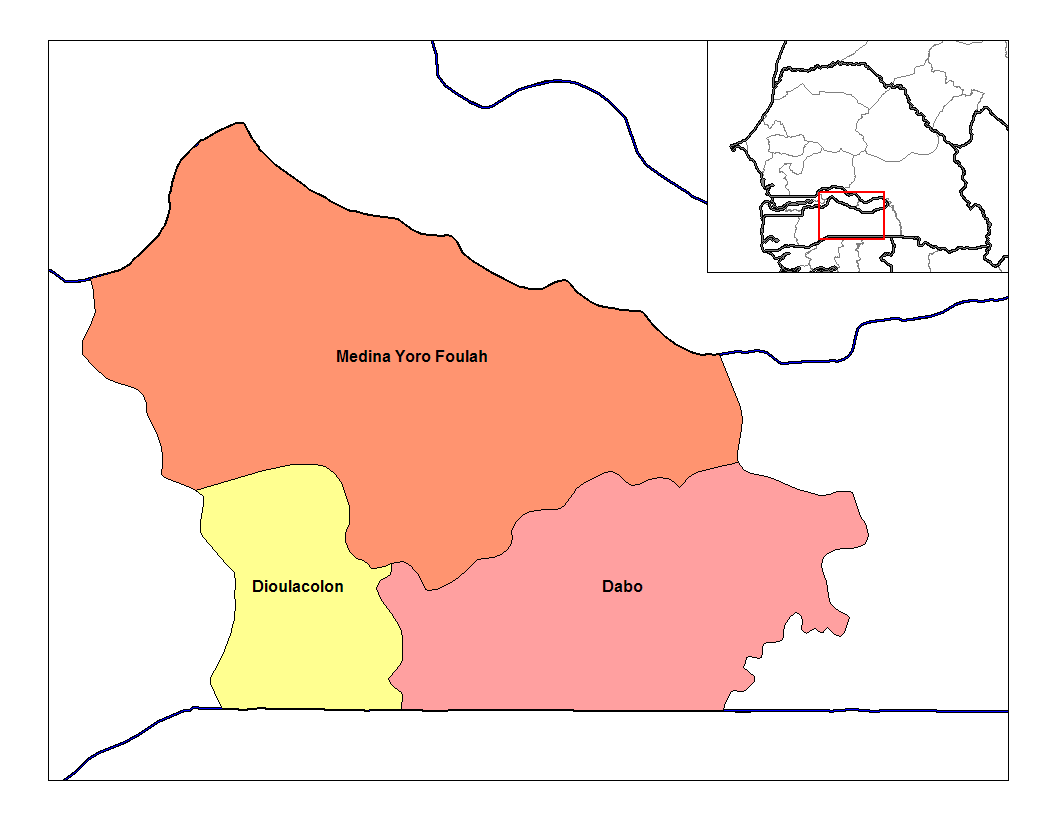 Map of the arrondissements of Kolda department in Senegal.